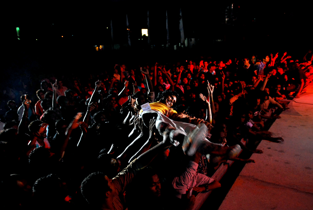 Crowdsurfing vocalist at the Alimas Carnival, Maldives.